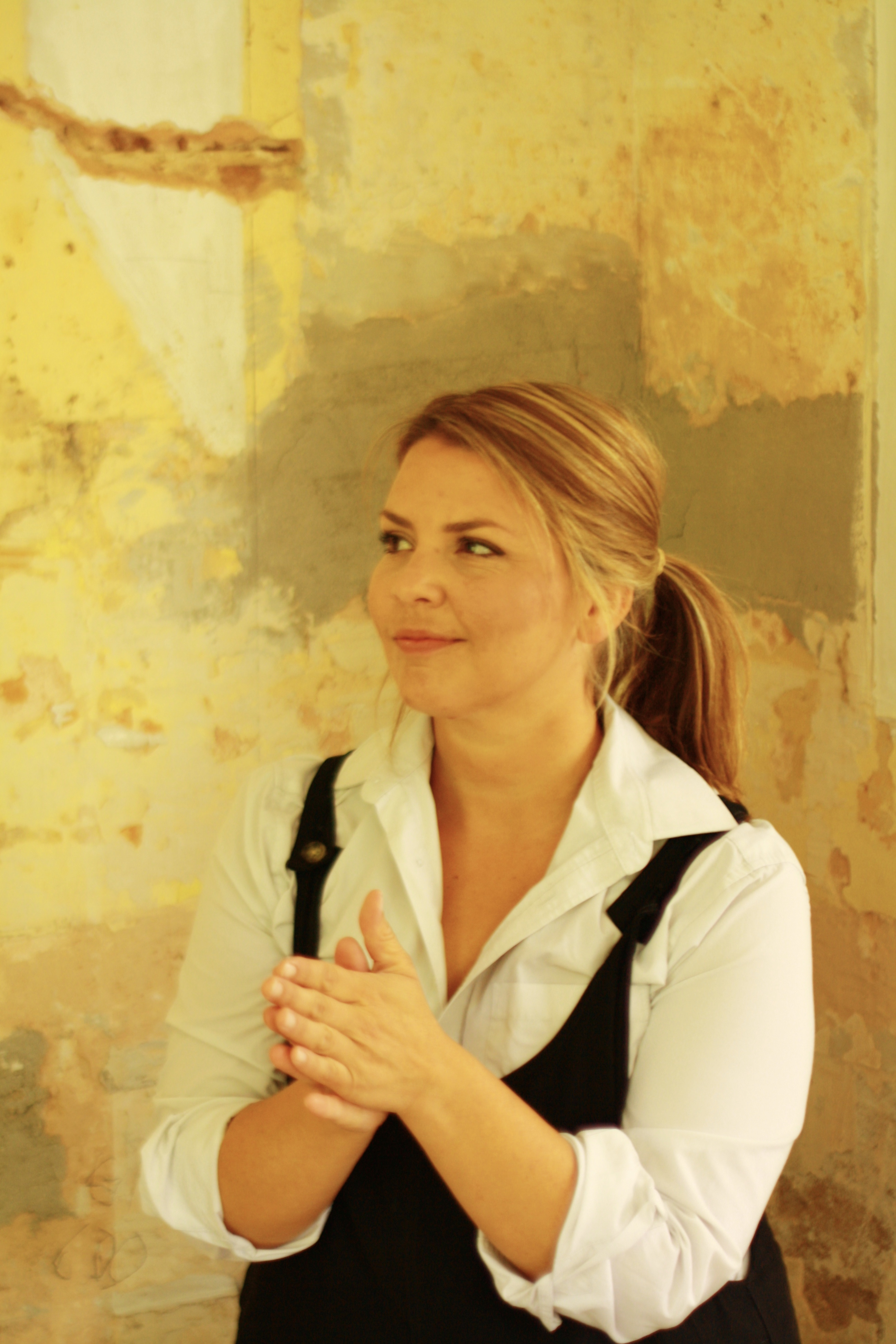 Ingrid Dahle, Comedian & Actress, photo sourced from with Creative Commons attribution available